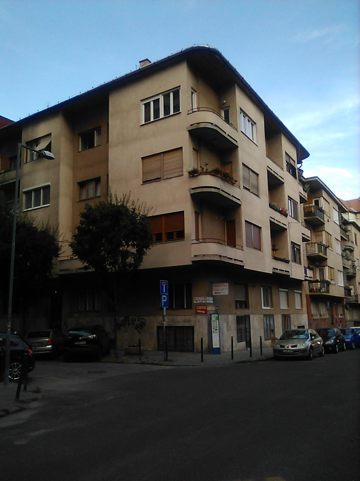 Budapest District II, Bajvívó street 01, corner to Jurányi street, House designed by Alfred Bardon, built by Herman Ginczler, Hungarian architects